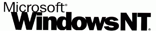 Logo of Windows NT 4.0 (approx. 1996 to 1999) Cebuano: Logo ng Windows NT 4.0